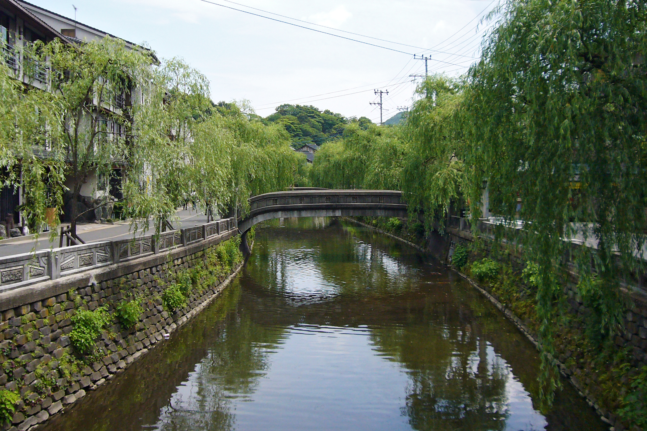 Otani river at Kinosaki Onsen in Toyooka, Hyogo prefecture, Japan